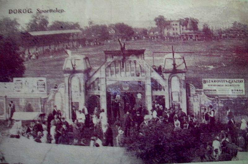 It was the original main entrance. It called South gate.